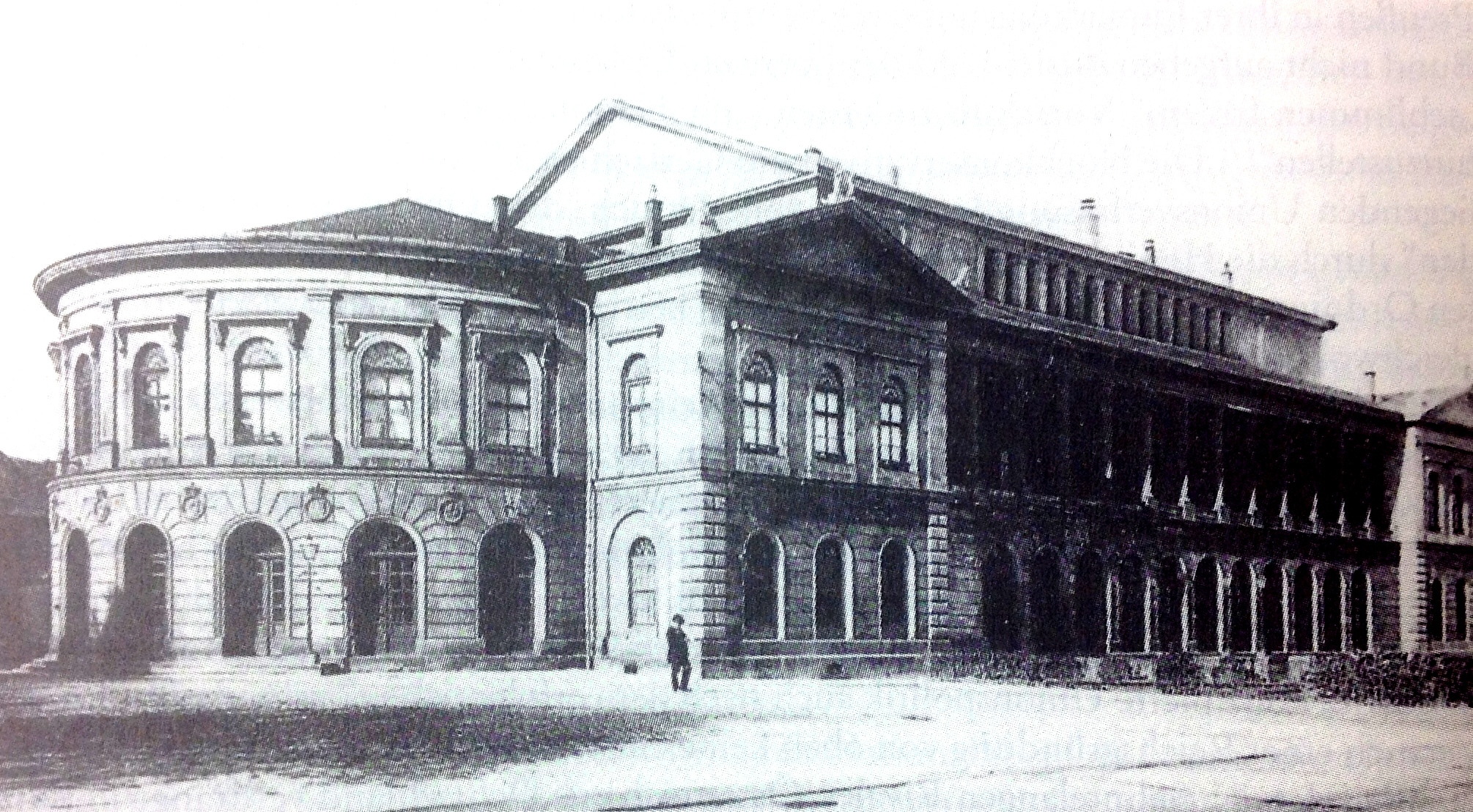 Theater in Gotha: Gothaer Versammlung.